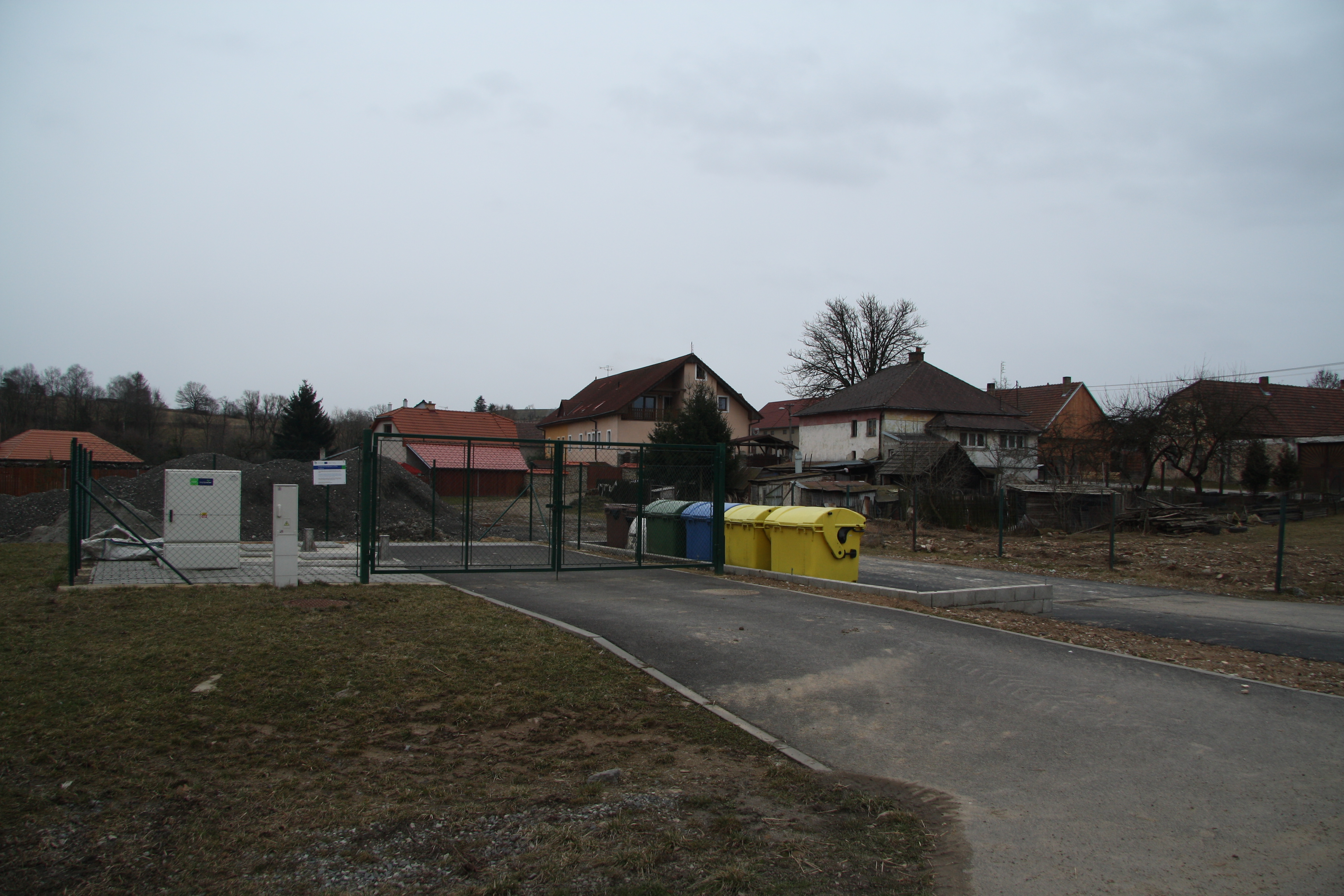 Electric place in Brodce, Kněžice, Jihlava District.